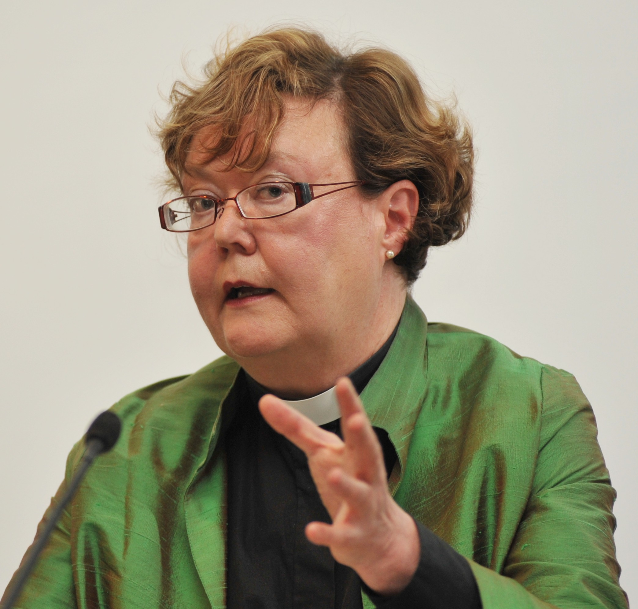 Irja Askola, Finnish bishop (as of September 2010), House of Sciences and Letters, Helsinki, May 2010.